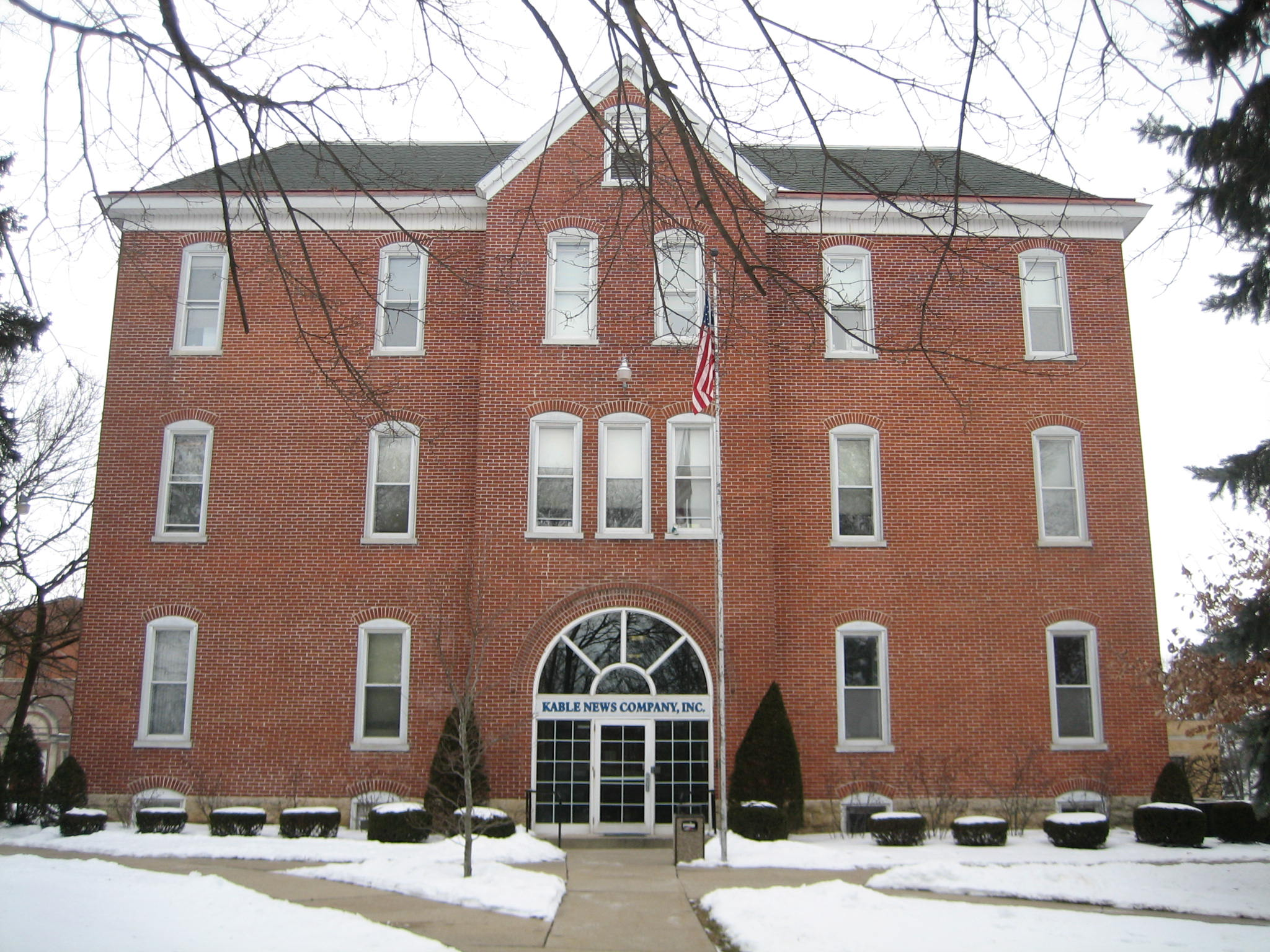 Kable News Company, Inc. Building. Downtown Mount Morris, Mount Morris, Illinois.